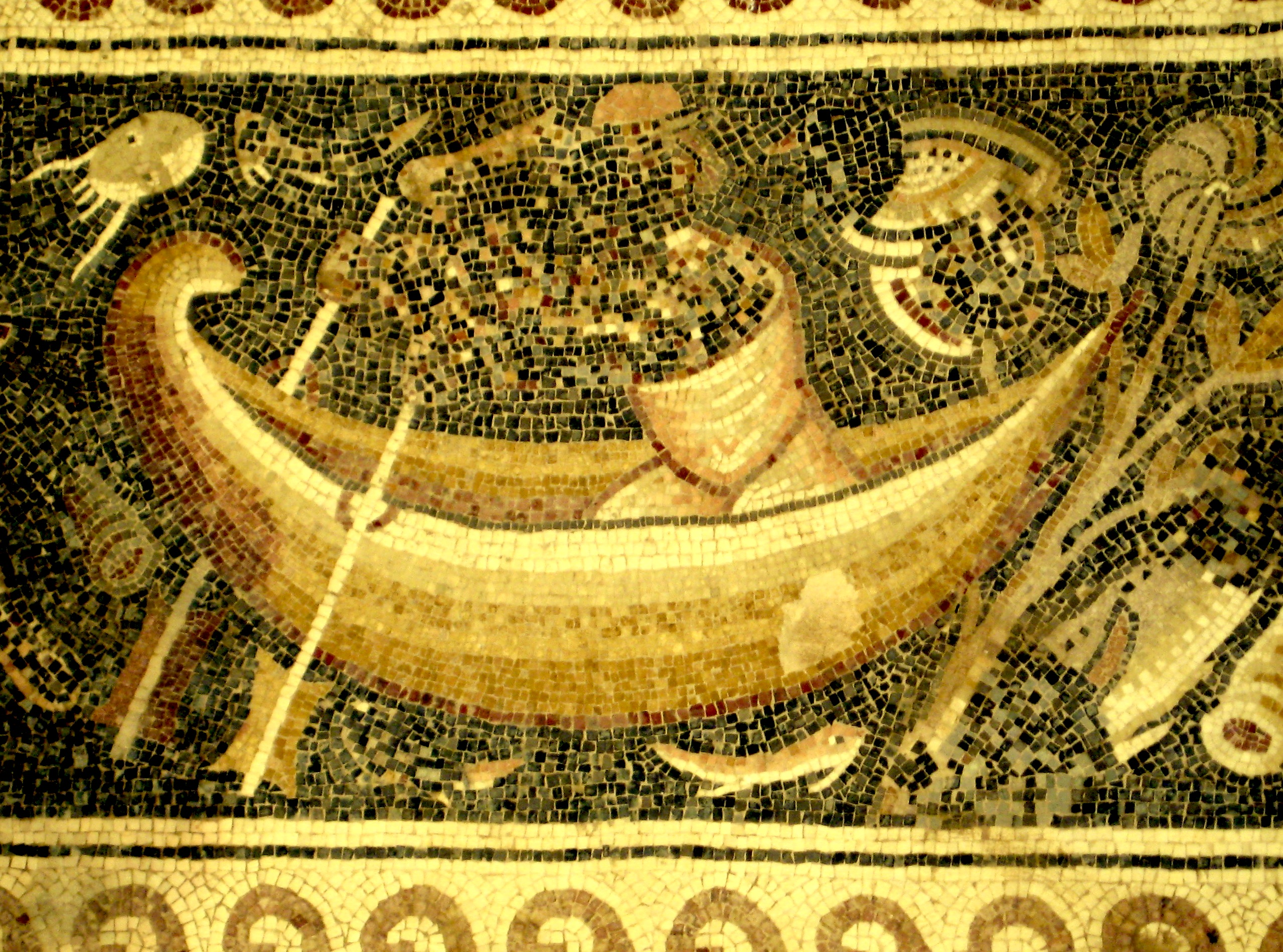 Mosaic depicting a fisherman from Saint Stephen Church located in Umm Rasas, Jordan.